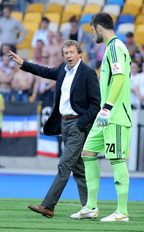 Yuri Semin and Artem Kychak